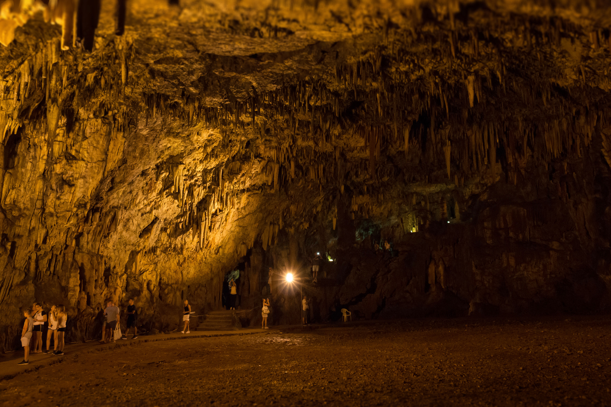 500px provided description: The Drogarati Cave in Kefalonia was discovered 300 years ago when a strong earthquake caused a collapse that revealed the cave's entrance. Drogarati is an impressive cave with remarkable formations of stalactites and stalagmites. Speleologists say that this cave is about 150 million years old and constitutes a rare geological phenomenon.The cave is about 60m deep and has a constant temperature of 18?C. The humidity of the cave reaches 90%... [#Nature ,#Greece ,#Cave ,#Monumental ,#Cephalonia ,#Kefalonia ,#Sami ,#Drogarati Cave ,#Kefalonia Cave ,#Sami Cephalonia ,#Cephalonia cave]